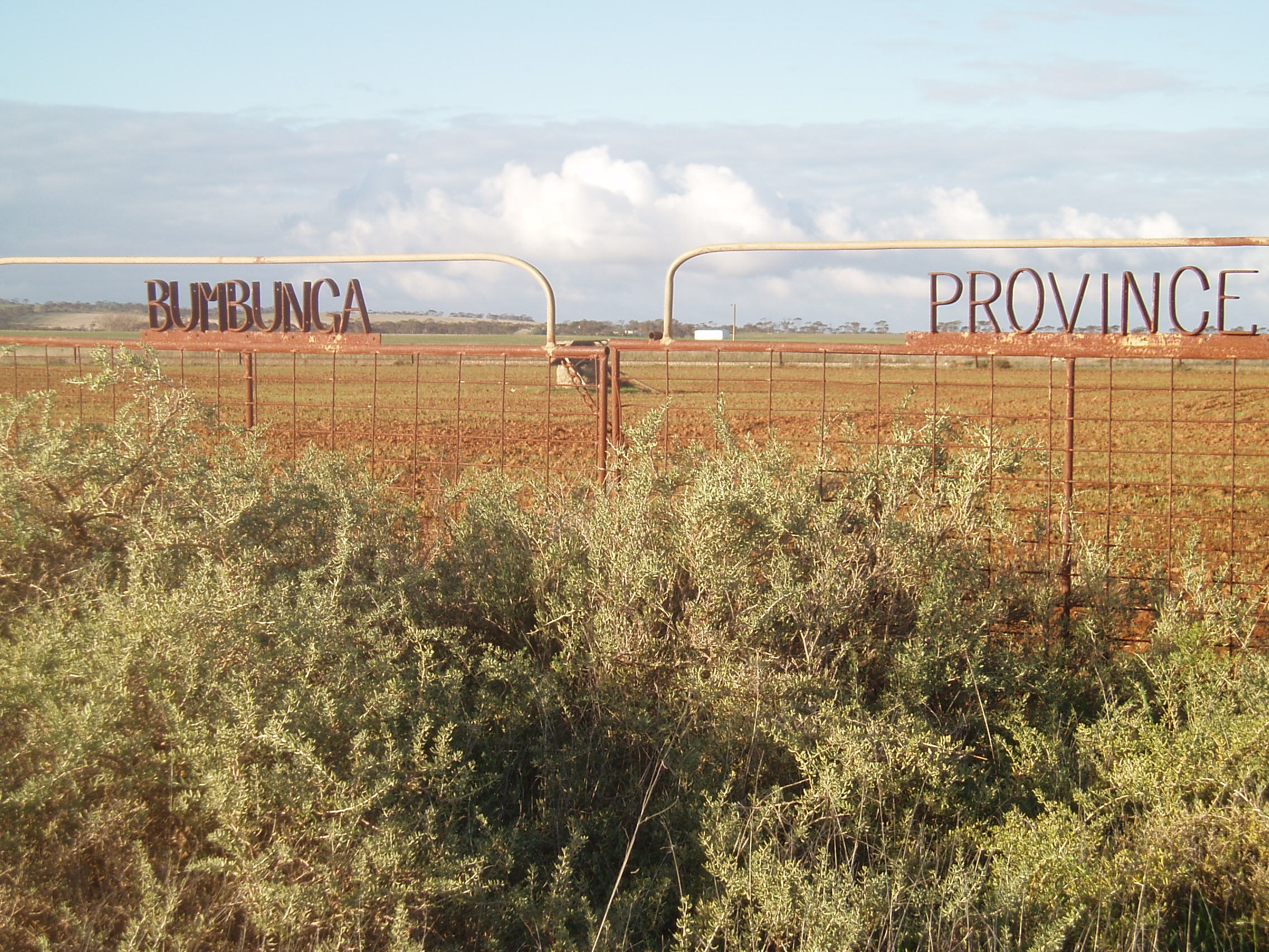 Gates of former micronation, Bumbunga Province, in Australia. Original photography by User:Donama, June 2006